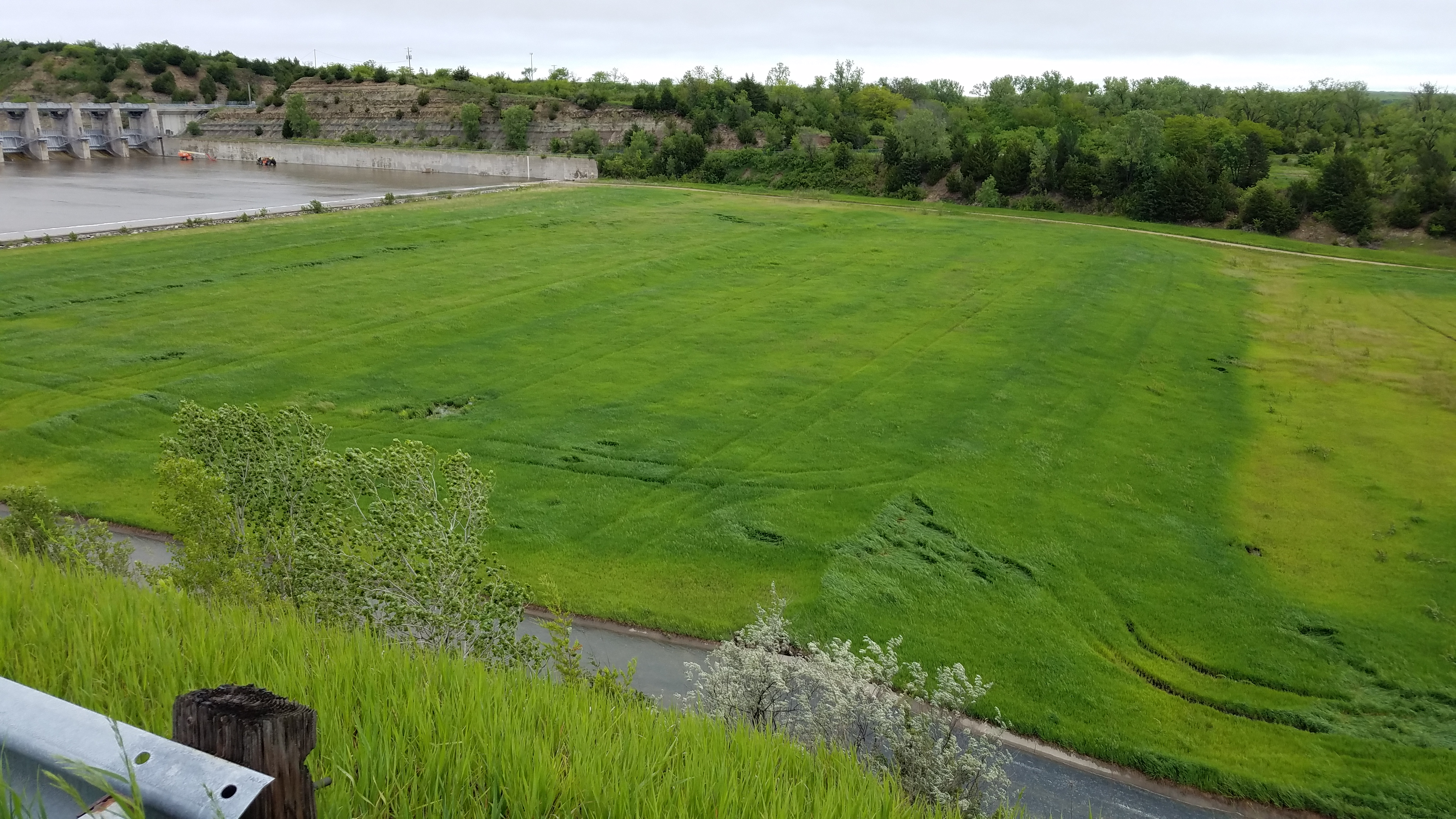 Tuttle Creek Lake spillway resodded chute 20190521.